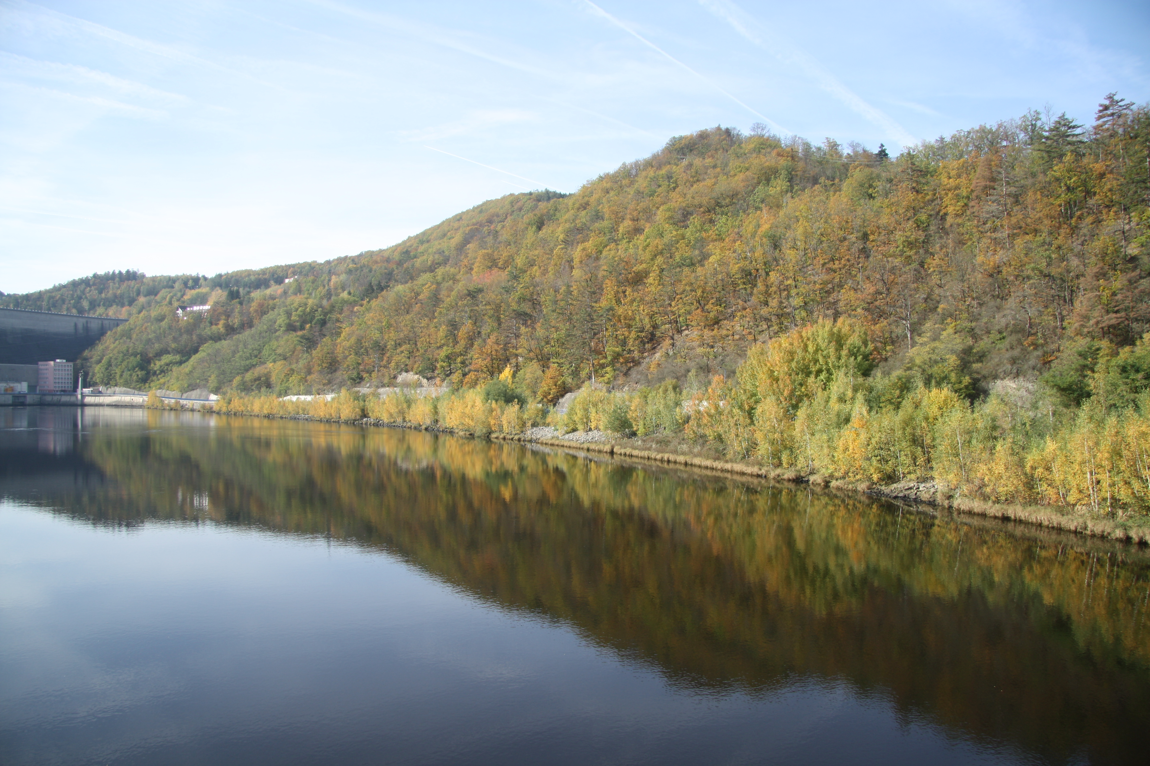 Overview of bank at Vltava in Solenice, Příbram District.